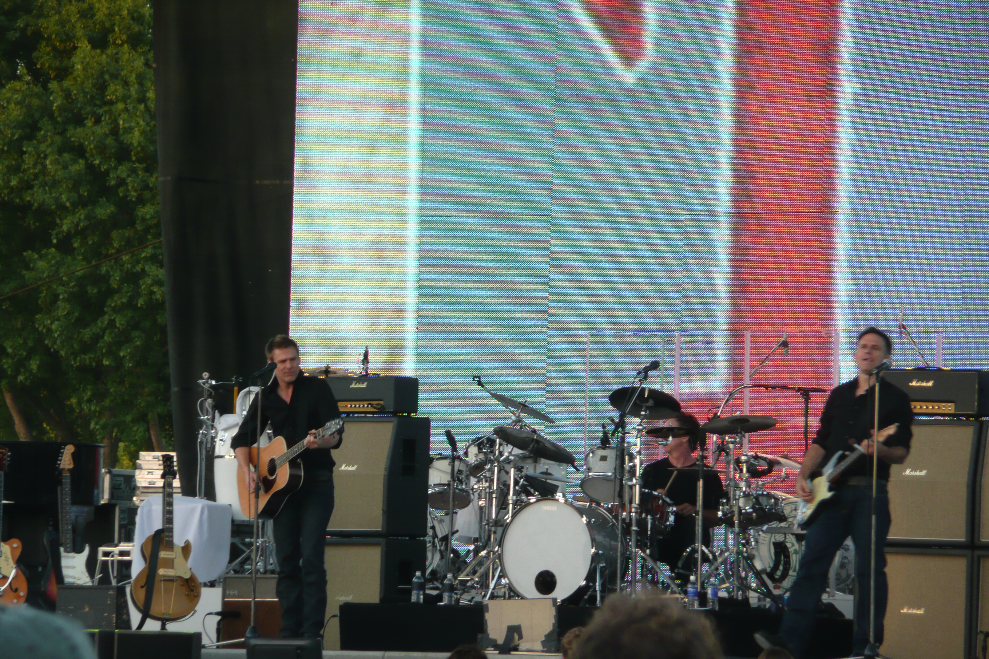 Bryan Adams live in Paso Robles, California, USA on July 30, 2008